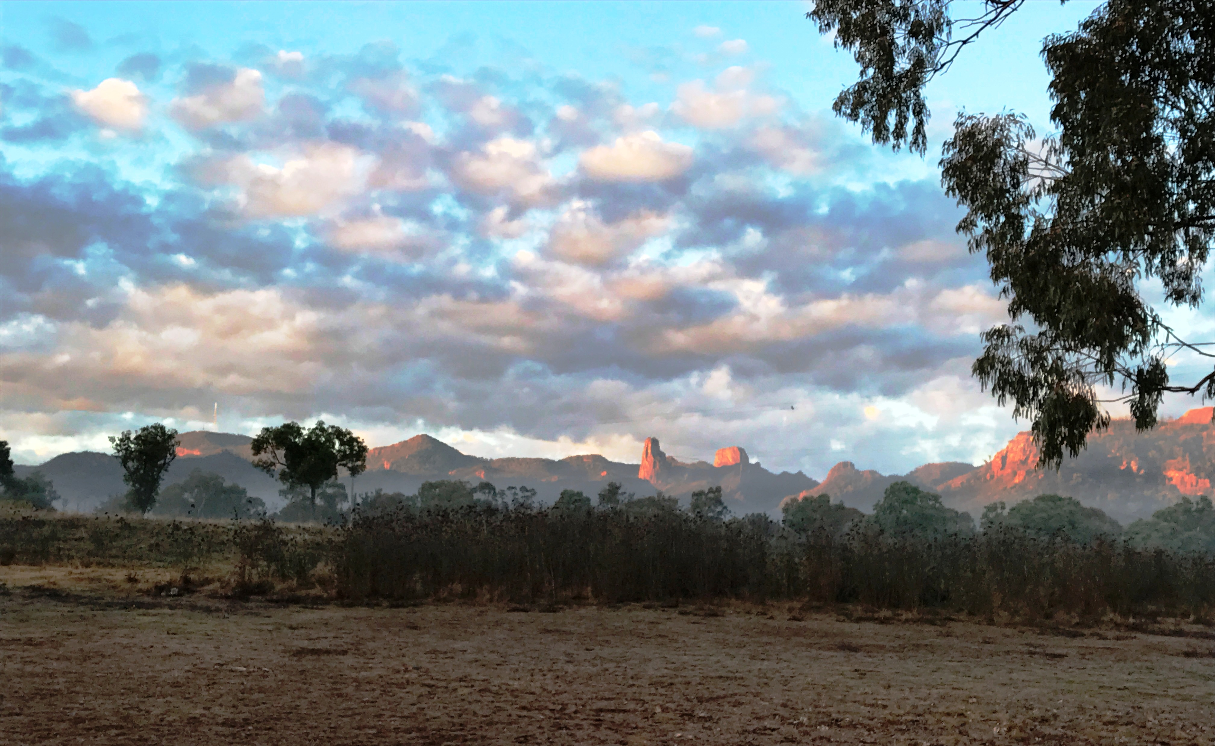 An early morning view of the peaks Warrumbungles National Park